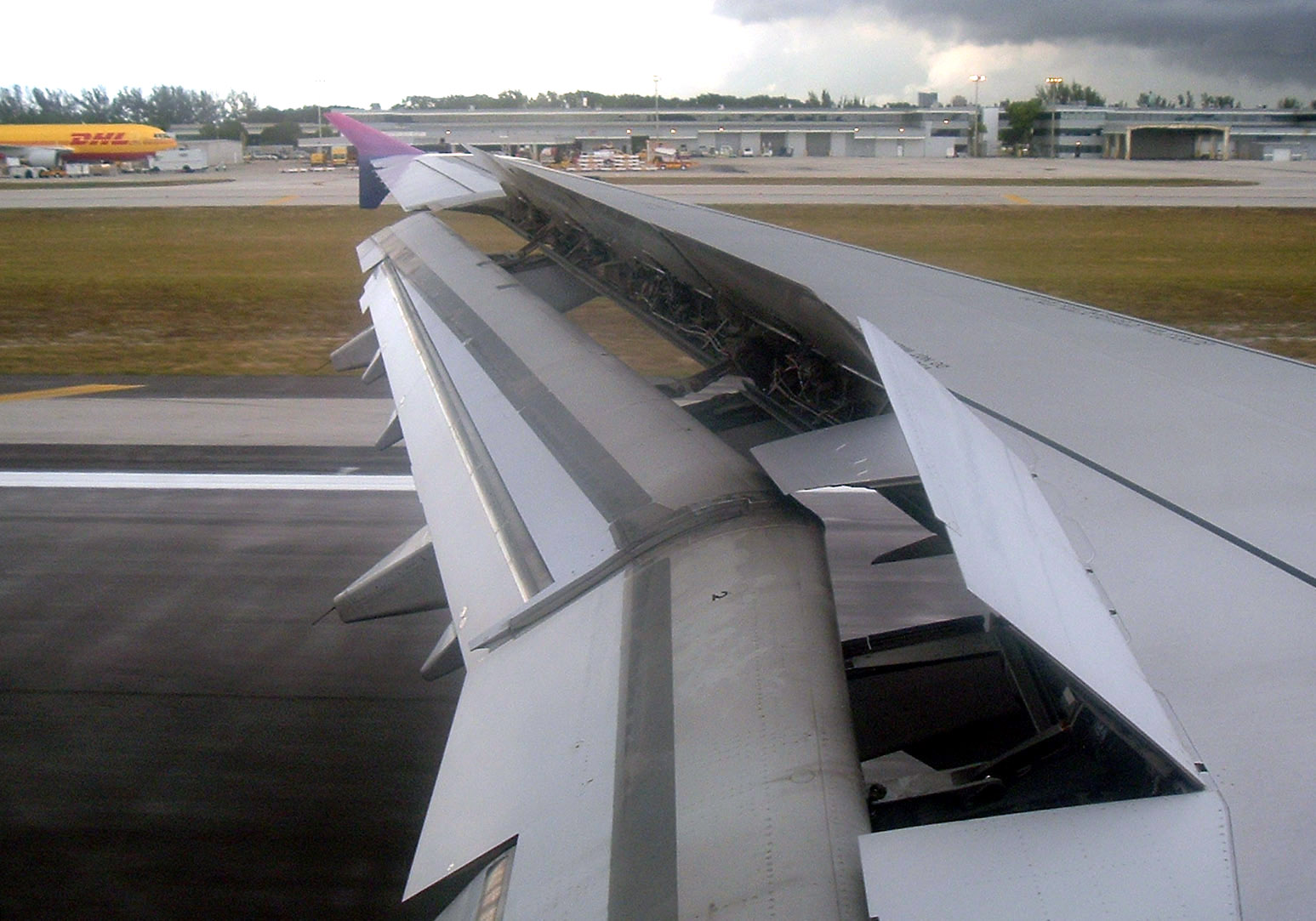 Picture taken aboard 6Y-JMH (Air Jamaica) December 2004. Shows the spoiler deployed after touchdown.